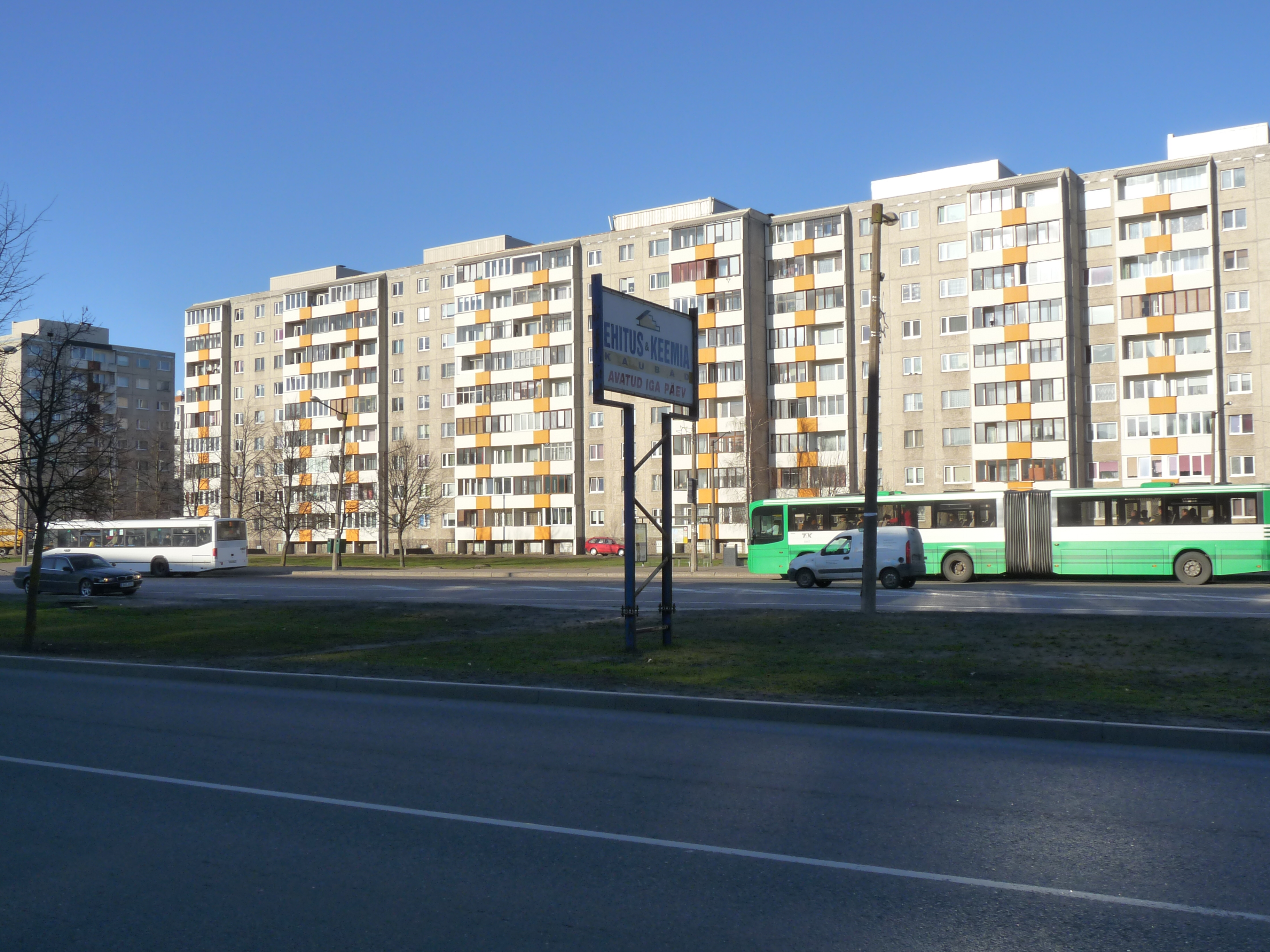 Kalevipoja bus stop in Tallinn